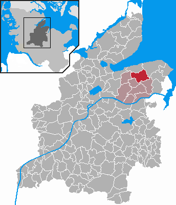 Locator maps of municipalities in Schleswig-Holstein - District Rendsburg-Eckernförde